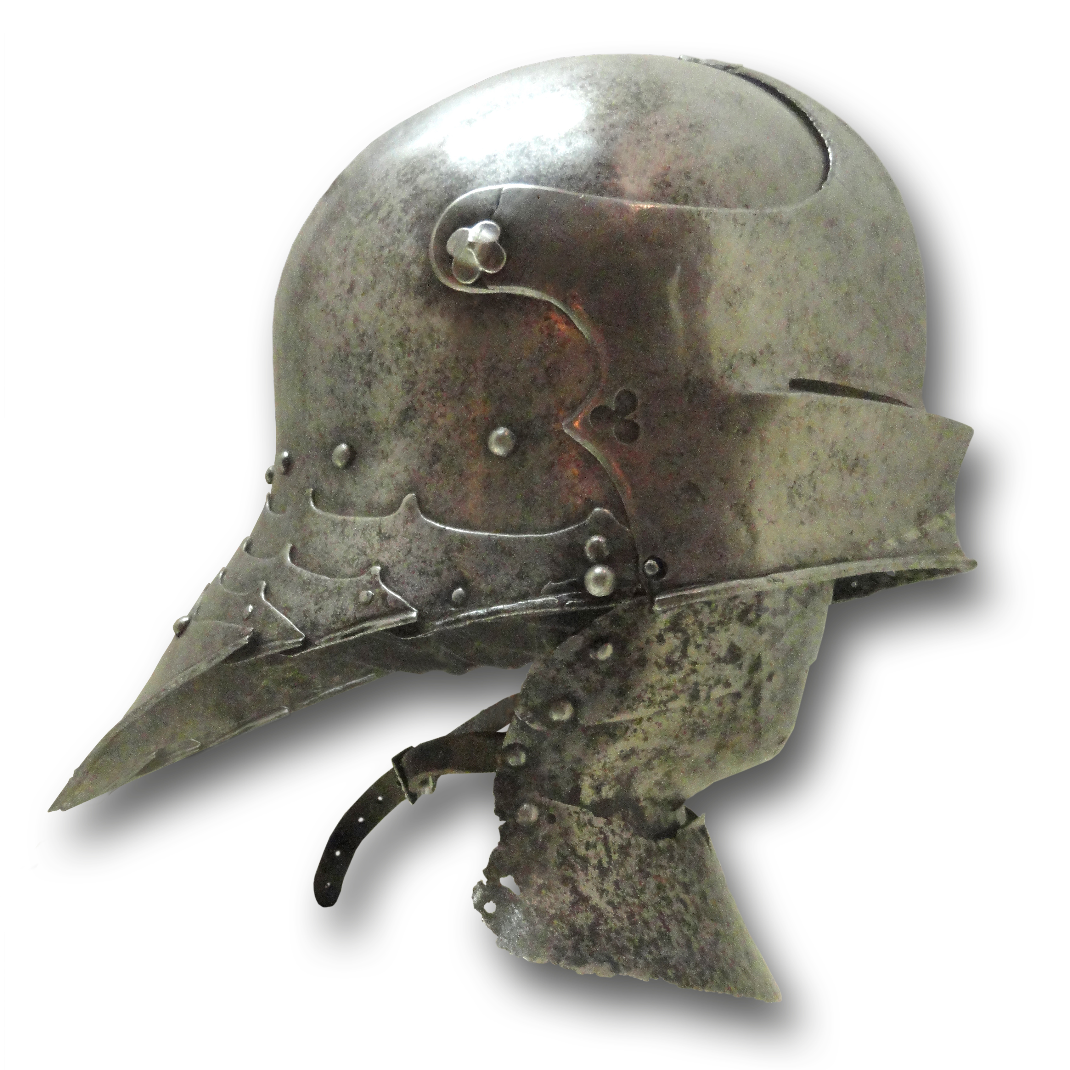 Exhibit in the Higgins Armory Museum, 100 Barber Avenue, Worcester, Massachusetts, USA. The museum permitted photography without any restriction, both in writing and when I asked verbally.